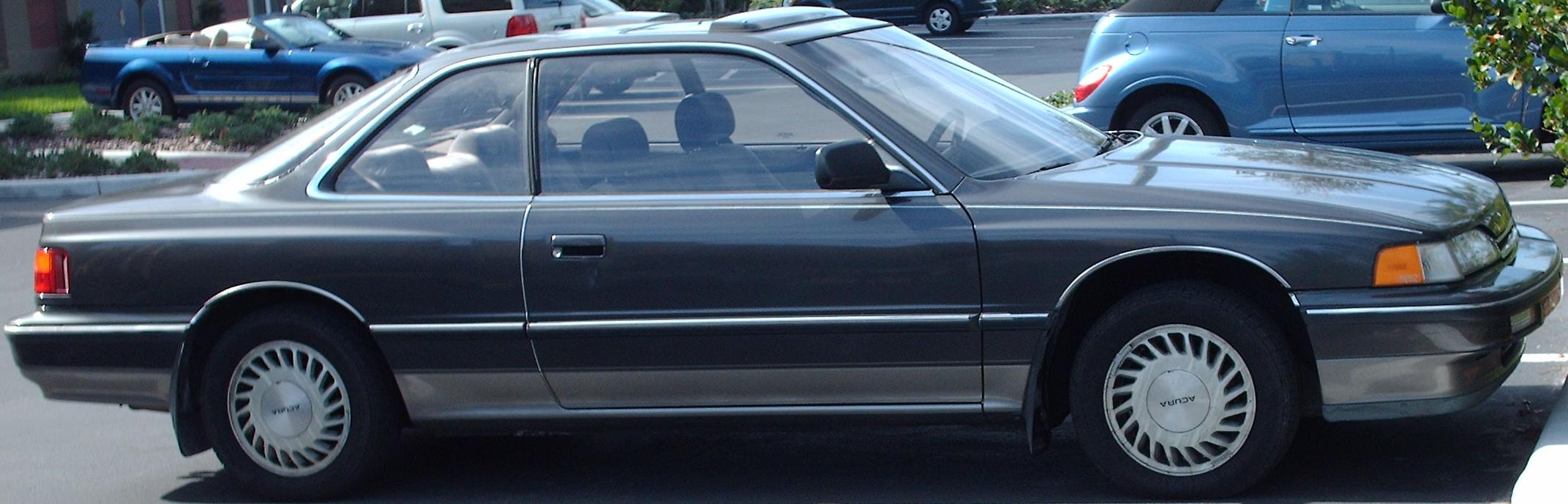 1986-1990 Acura Legend coupe photographed in Orlando, FL, USA.